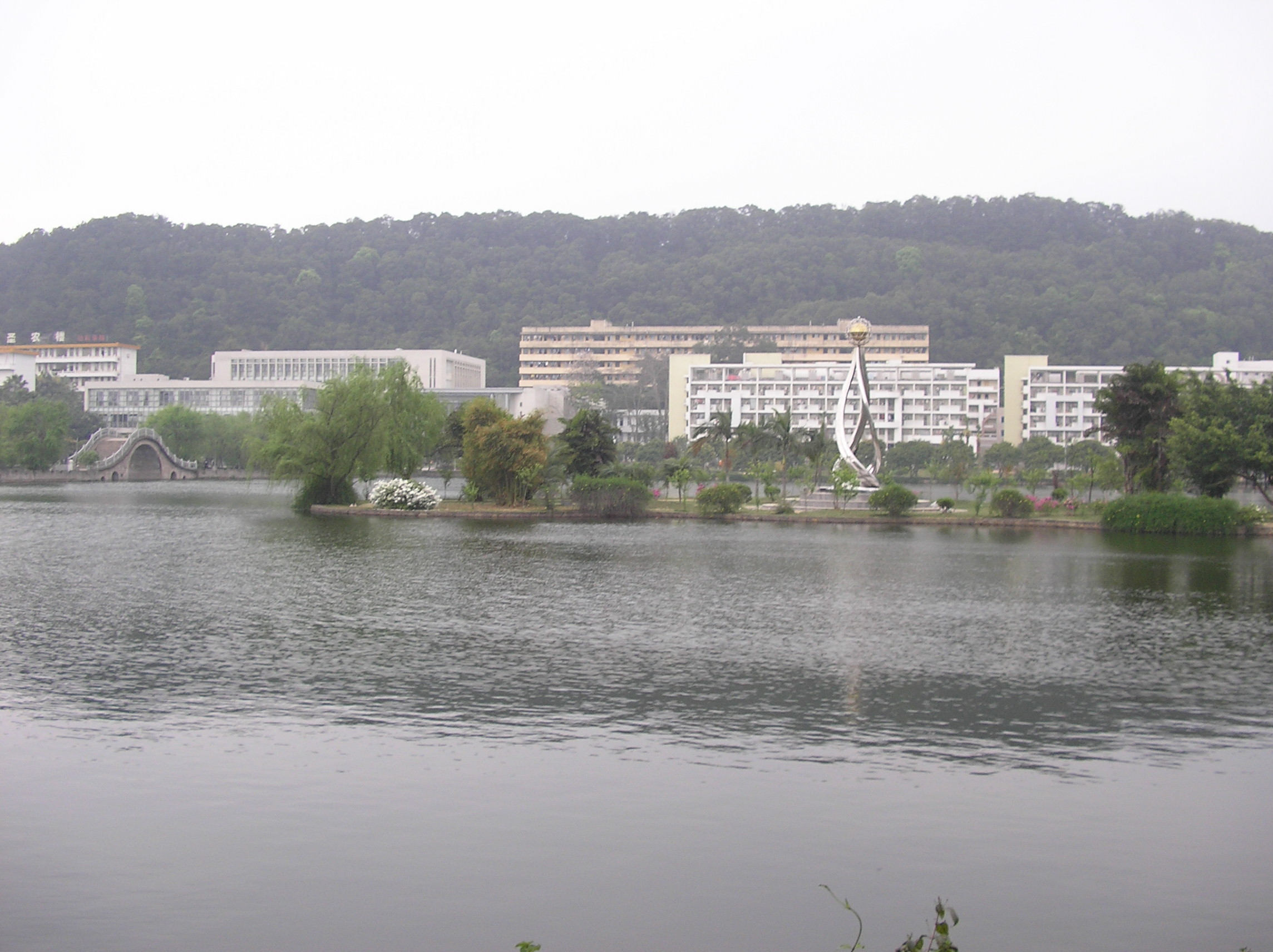 Fujian Agriculture and Forestry University. Name of this lake is Guanyin Lake. Stone bridge is Chunhui Bridge.